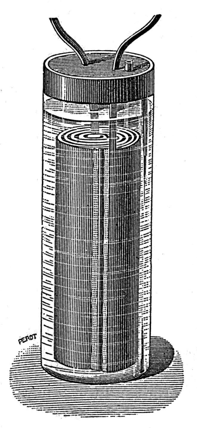 A 19th century illustration of Gaston Plante's original lead acid cell.